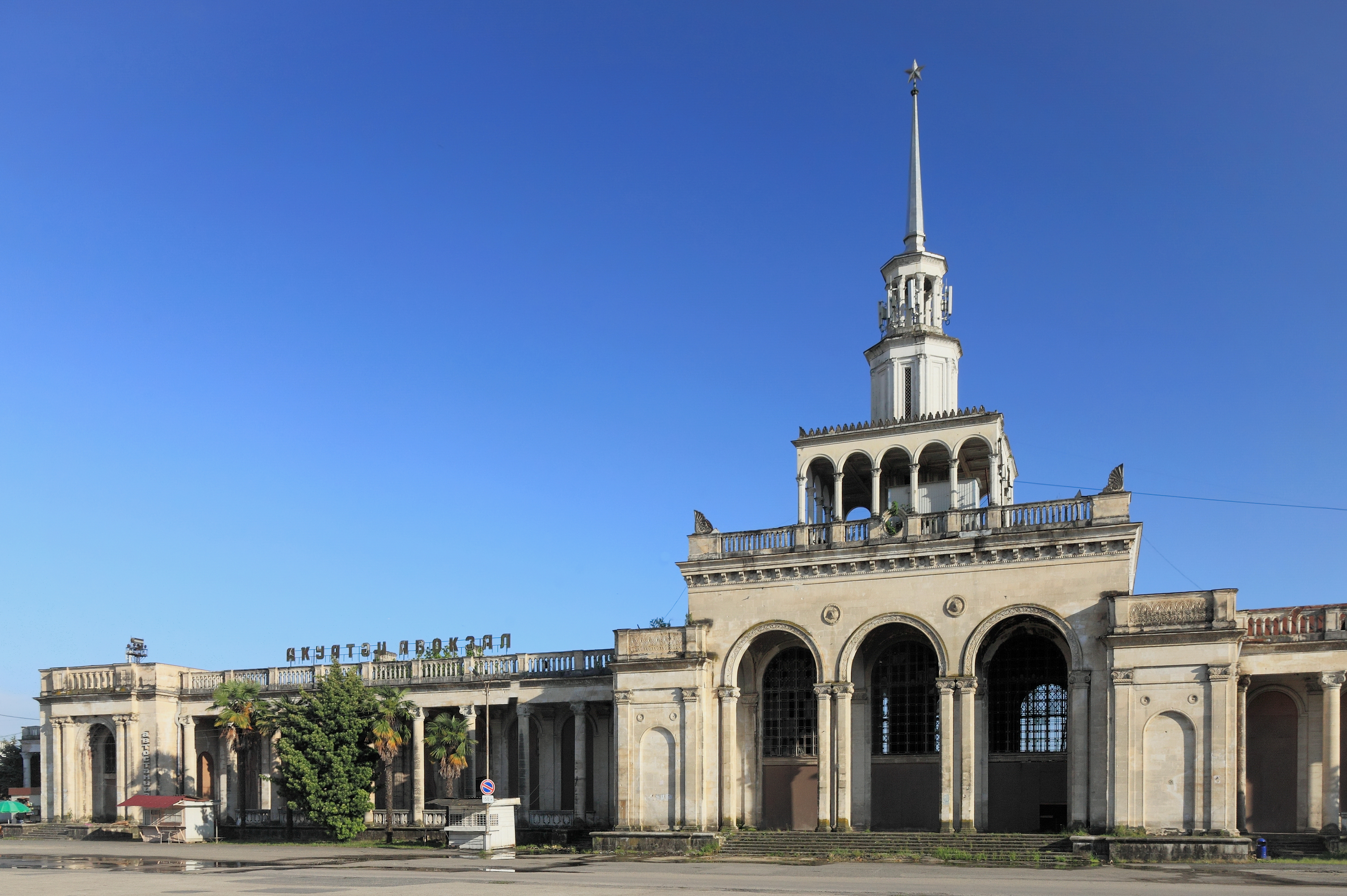 Railway station. Sukhumi, Abkhazia.